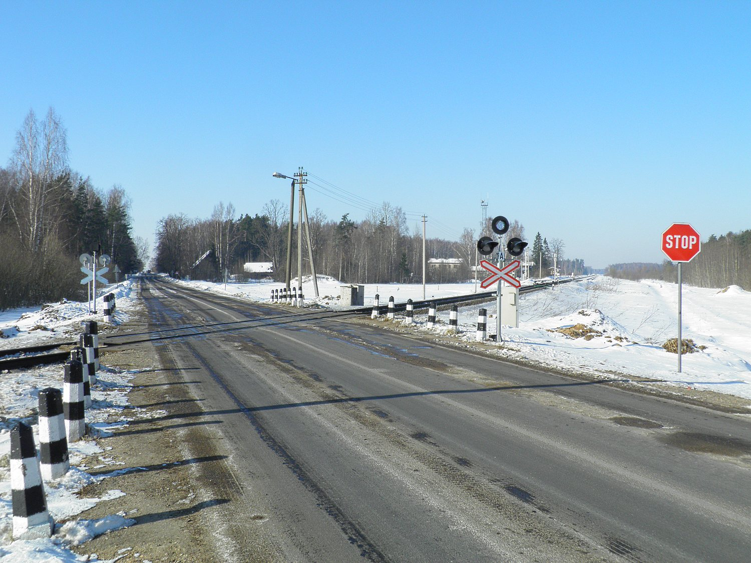 Railway crossing near Līvbērze on road P98Latviešu: Dzelzceļa pārbrauktuve pie Līvbērzes stacijas uz autoceļa P98